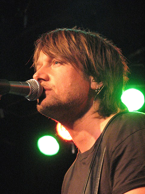 Keith Urban showcase - Sydney - First taste (Album)